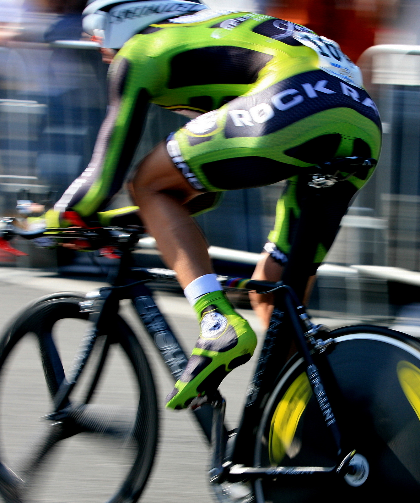 Mario Cipollini at the Prologue of the Tour of California in Palo Alto